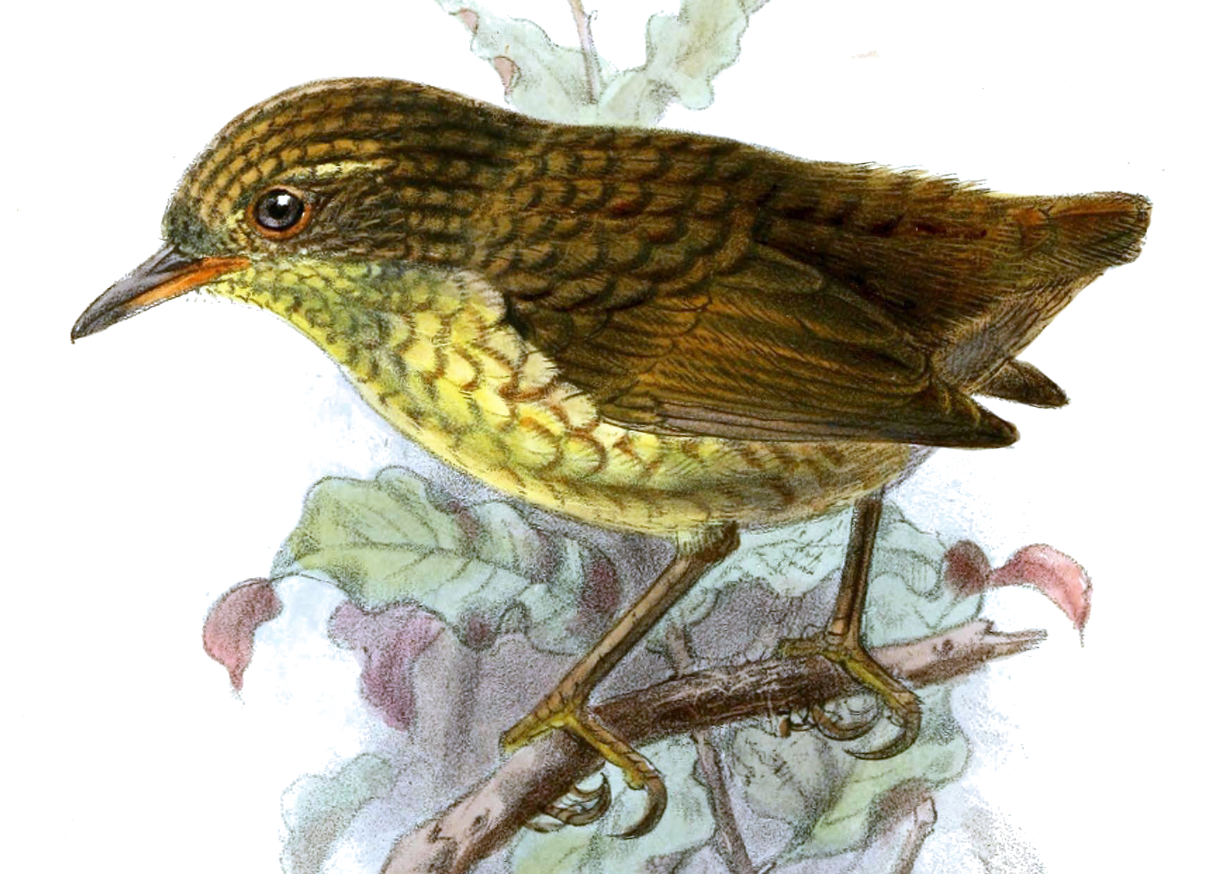 Xenicus insularis = Stephens Island Wren (Xenicus lyalli, cat.)